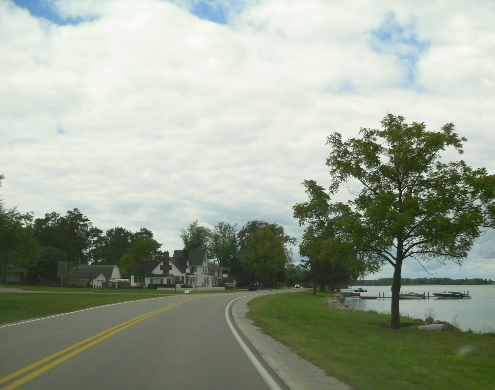 The Niagara Parkway near Niagara Falls